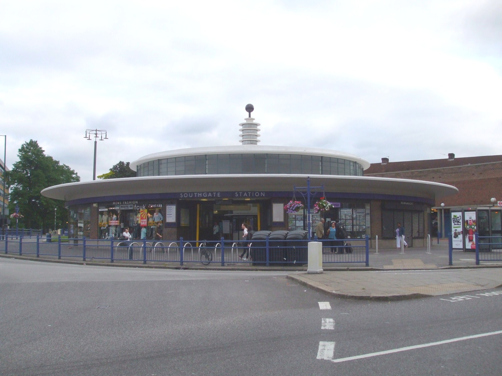 Southgate tube station building